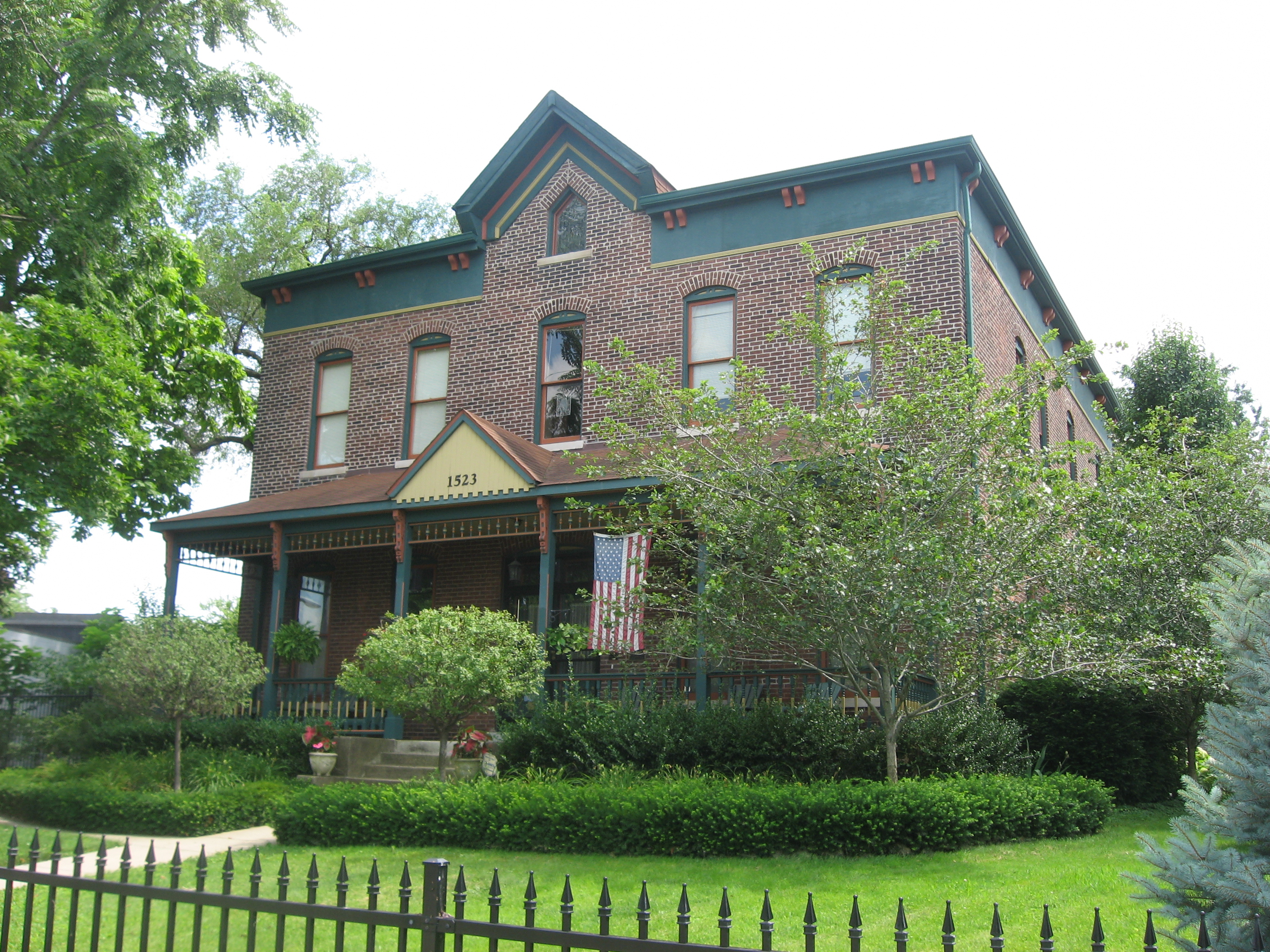 Front of the John Fitch Hill House, located at 1523 Southeastern Avenue in Indianapolis, Indiana, United States. Built in 1852, it is listed on the National Register of Historic Places.